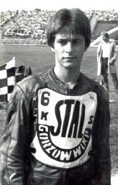 Benedykt Dabrowski - polish speedway rider.